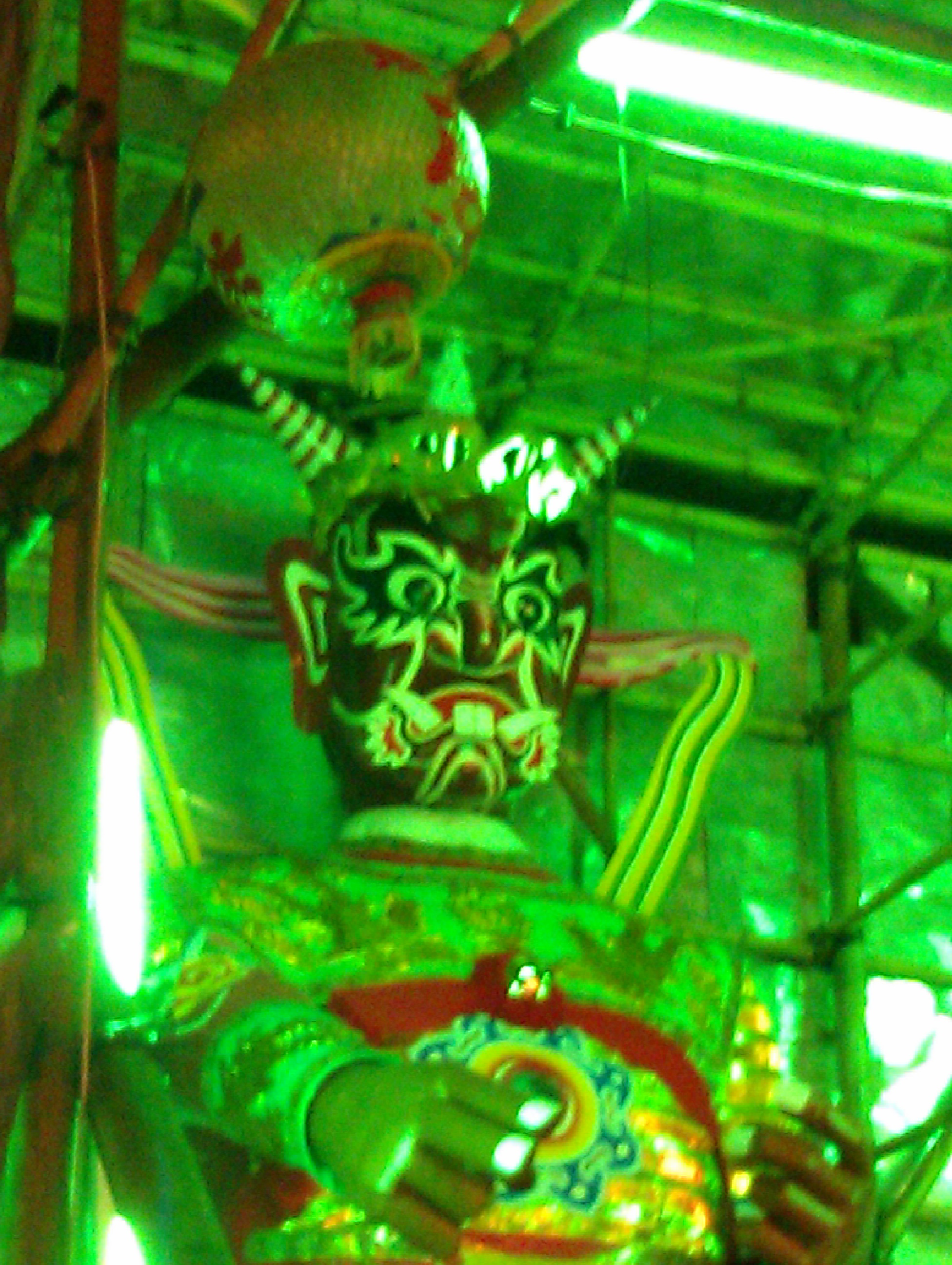 Statue of Mianran Dashi (a Buddhist and Taoist deity) in Ko Chiu Road, Yau Tong, Kwun Tong District, Hong Kong, during Ghost Festival